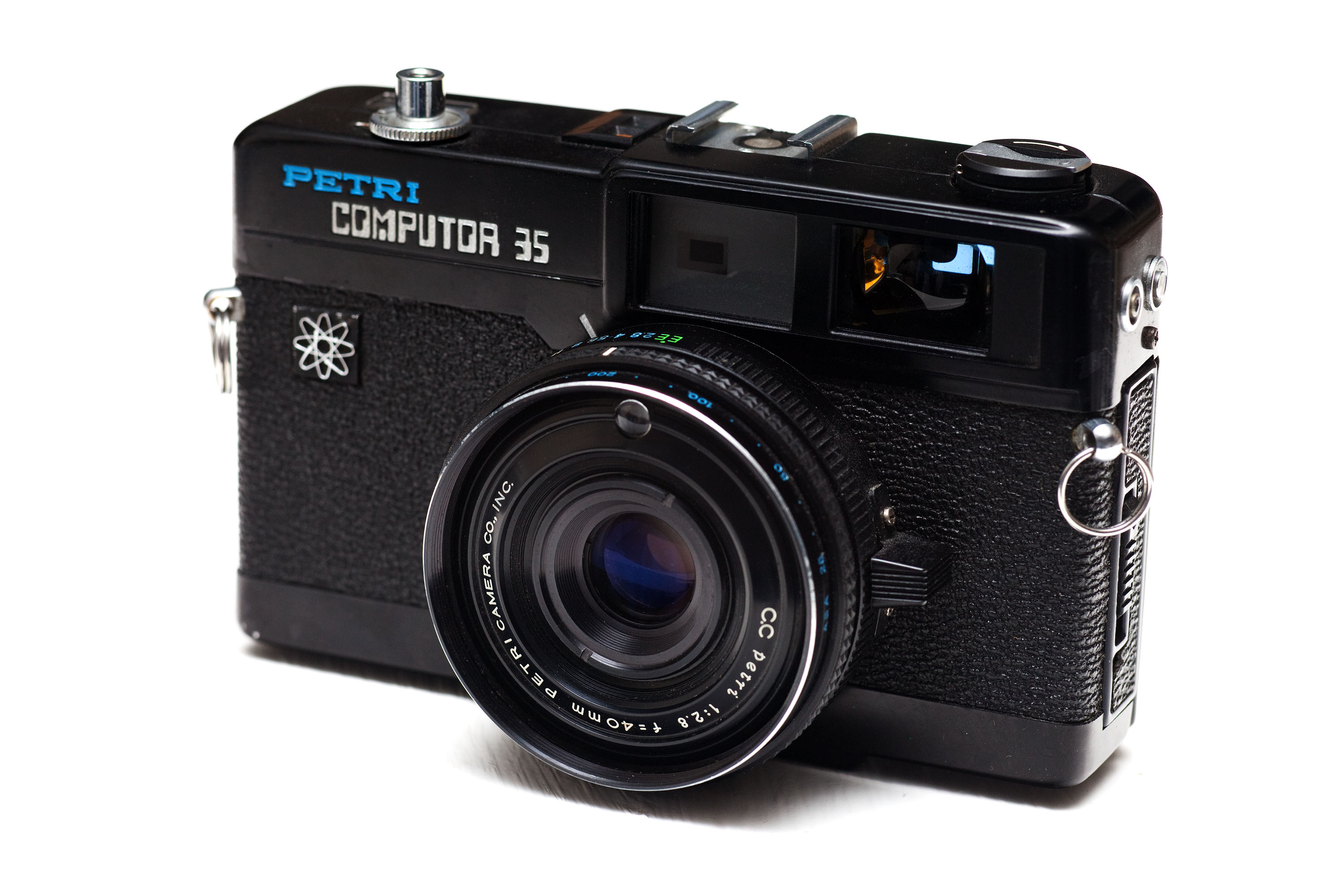 A Petri Computor 35 electronic rangefinder camera